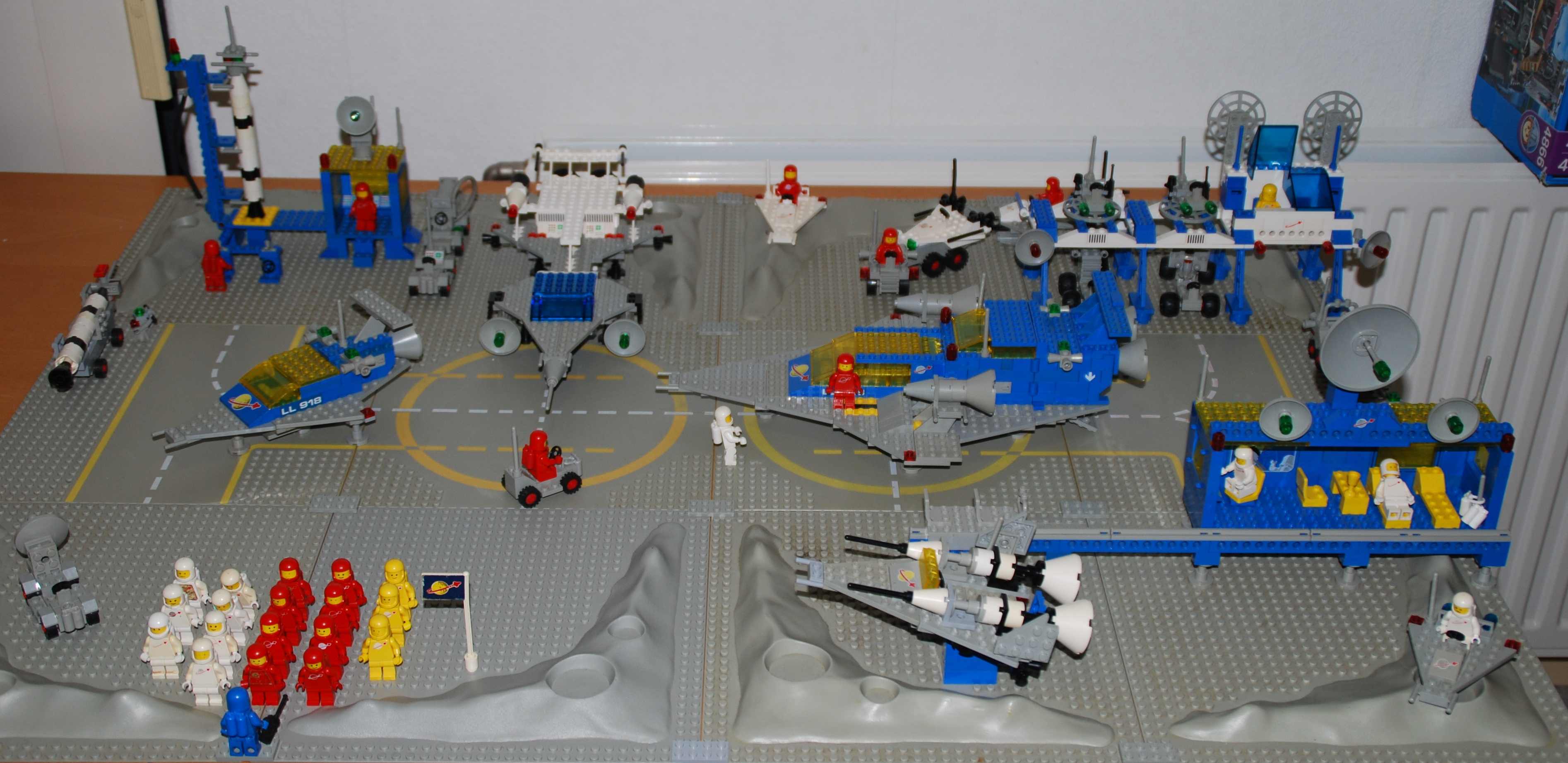 Lego Classic Space sets (885 - 886 - 889 - 920 - 918 - 928 - 6841 - 6842 - 6870 - 6929- 6930 - 6970)